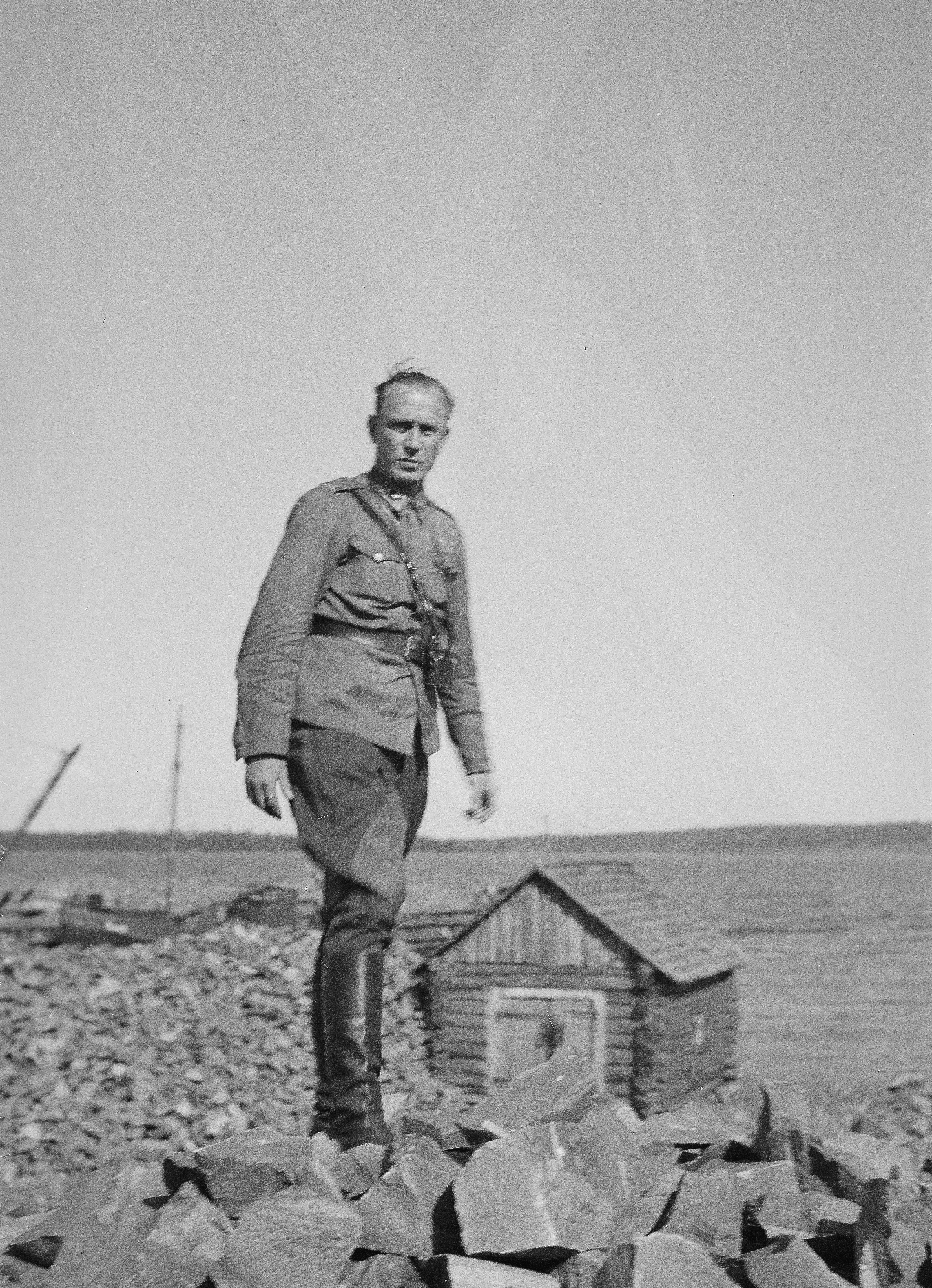 Olavi Paavolainen in Šokšu during World War II